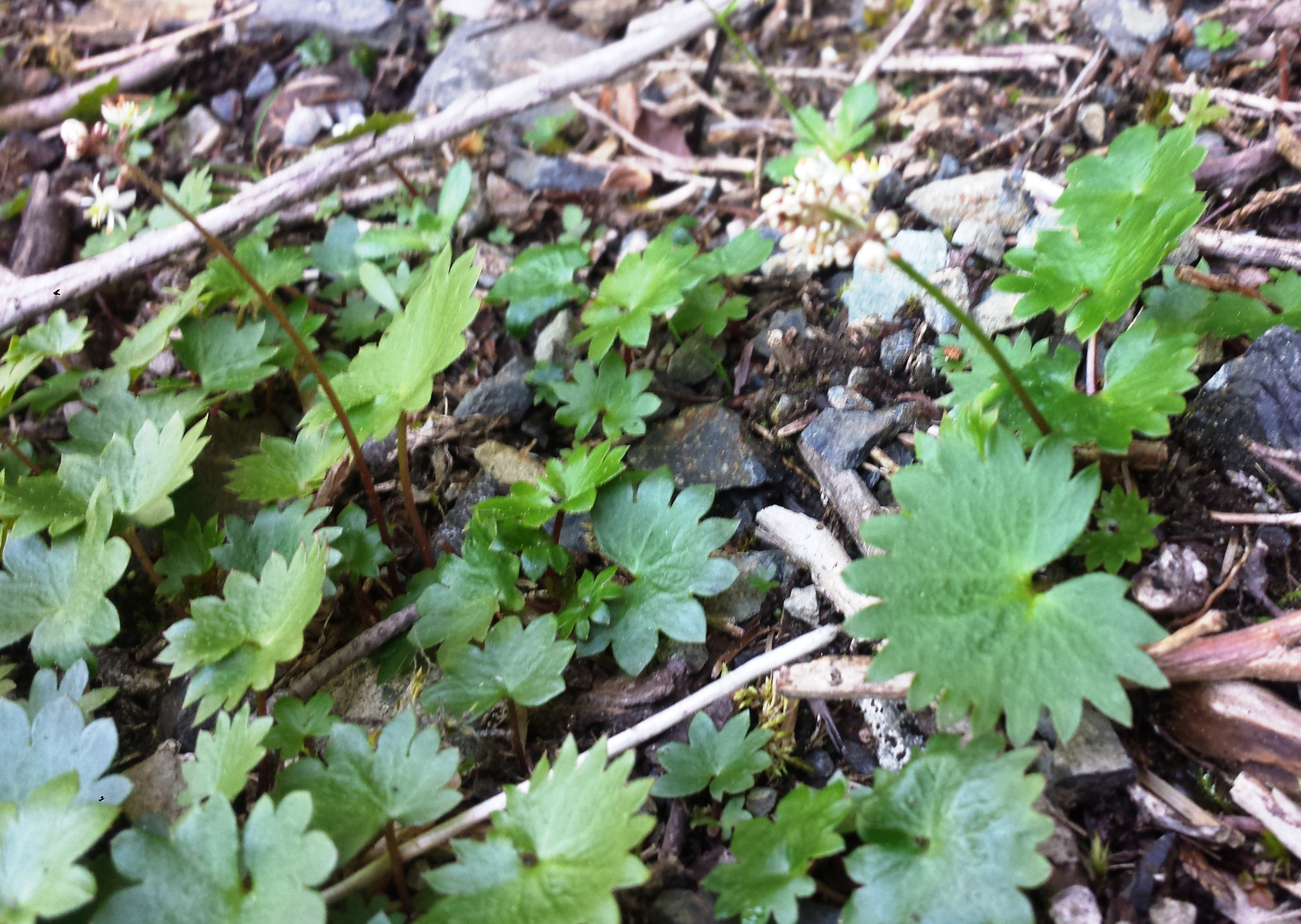 Saxifraga mertensiana near Big Four Ice Cave IMG_20150606_133407